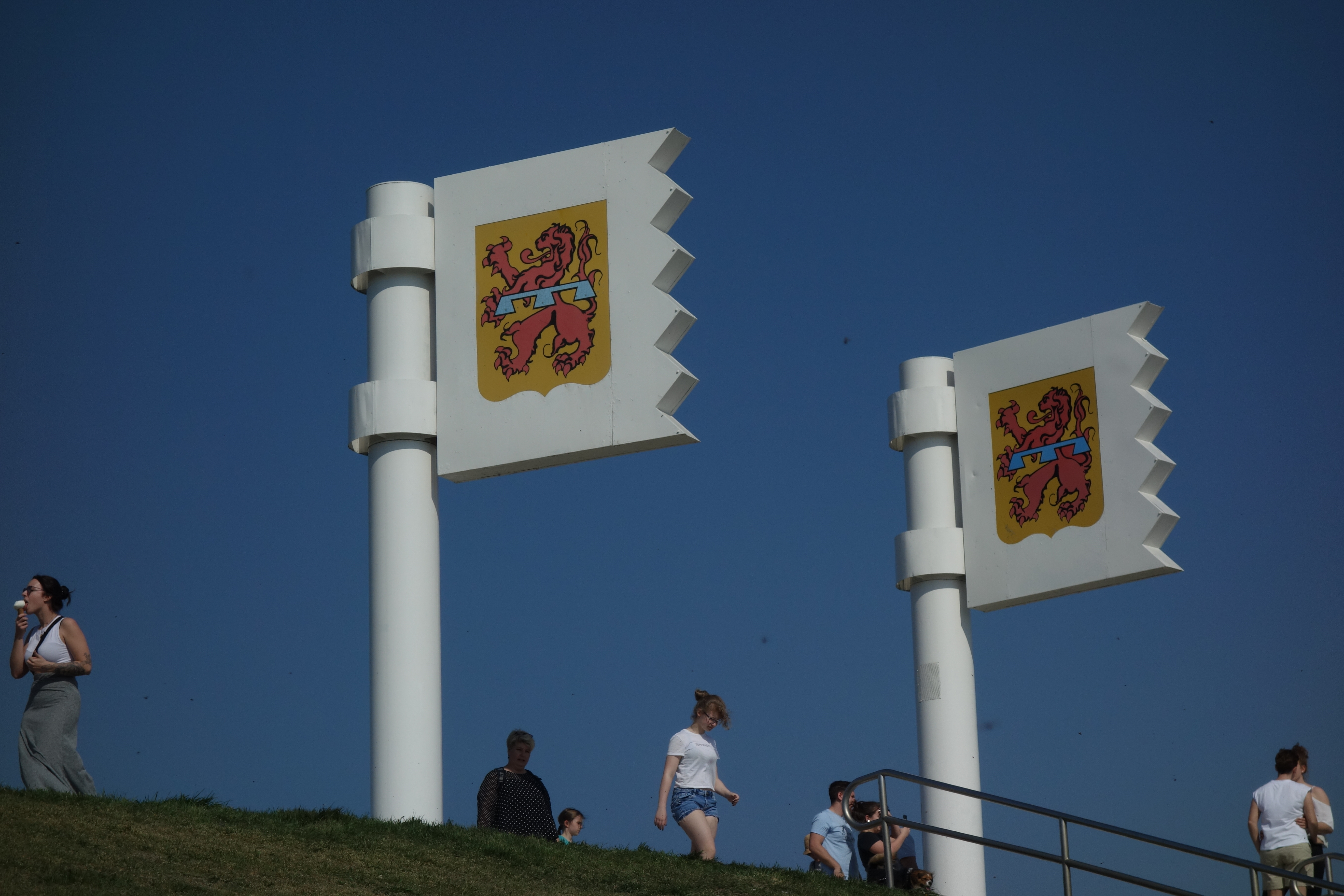 Flags of Zeeland in Zoutelande (2019)